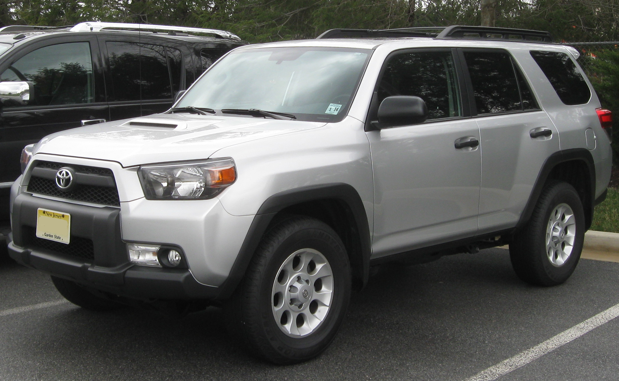 2010-2011 Toyota 4Runner Trail Edition photographed in Upper Marlboro, Maryland, USA.